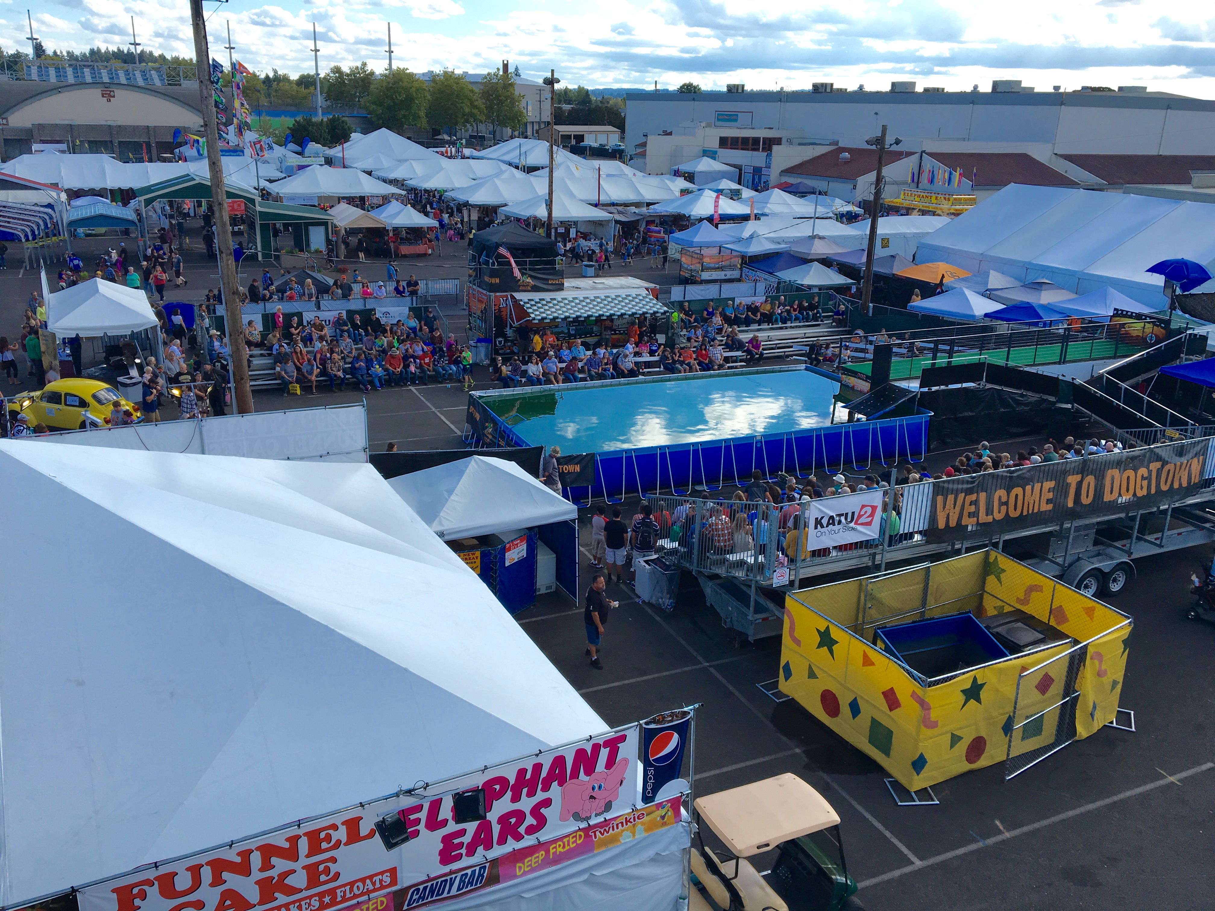 Oregon State Fair, September 4, 2016. Taken at Fairgrounds in Salem, Oregon.